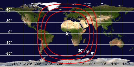 Footprint of a geostationary satellite.